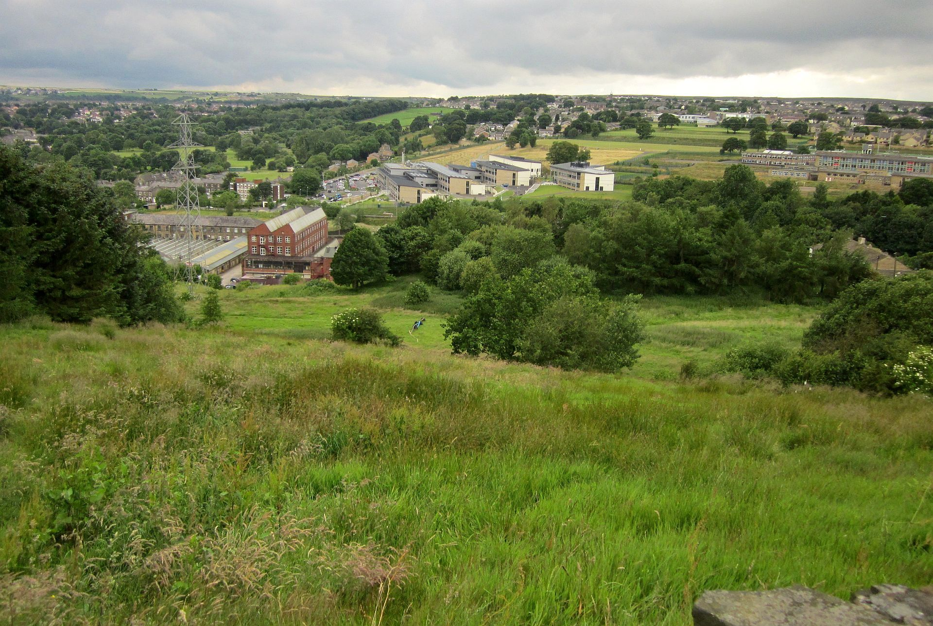 Holdsworth from Crooked Lane. Trinity Academy in the centre, Netherton Mill to the left.